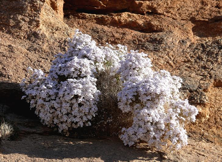 Jamesbrittenia ramosissima near Augrabies, South Africa